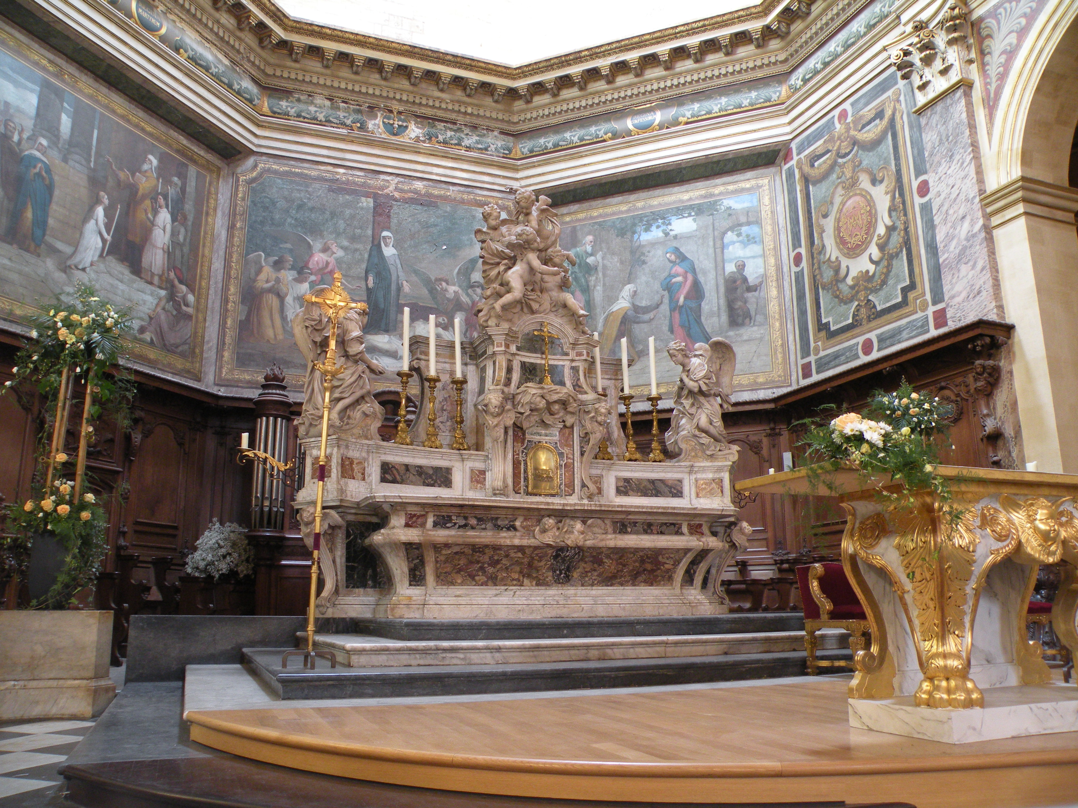 Choir of Notre-Dame church in Bordeaux.